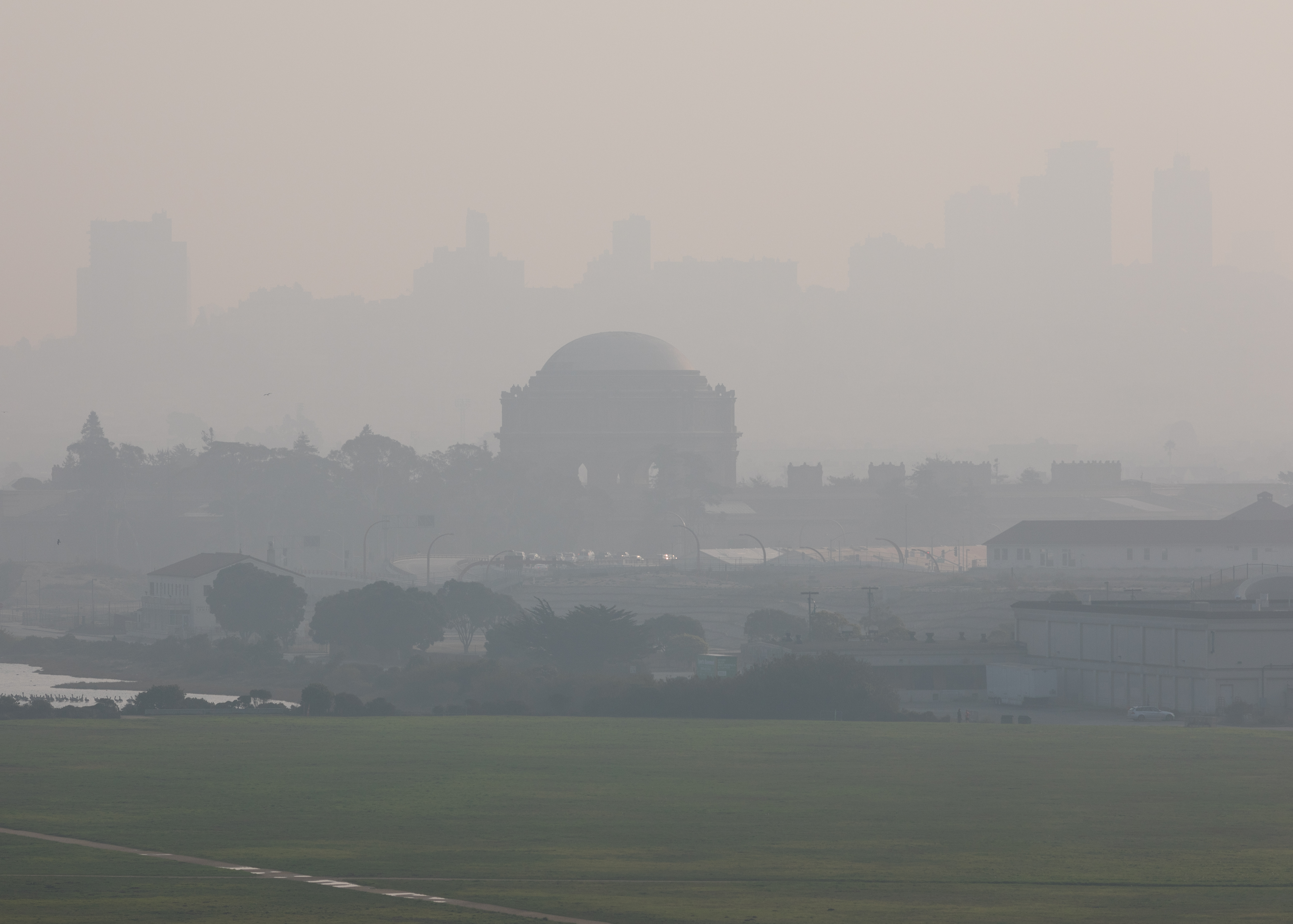 Skyline of San Francisco on November 19, 2018, as seen from the Presidio (during the Camp Fire)